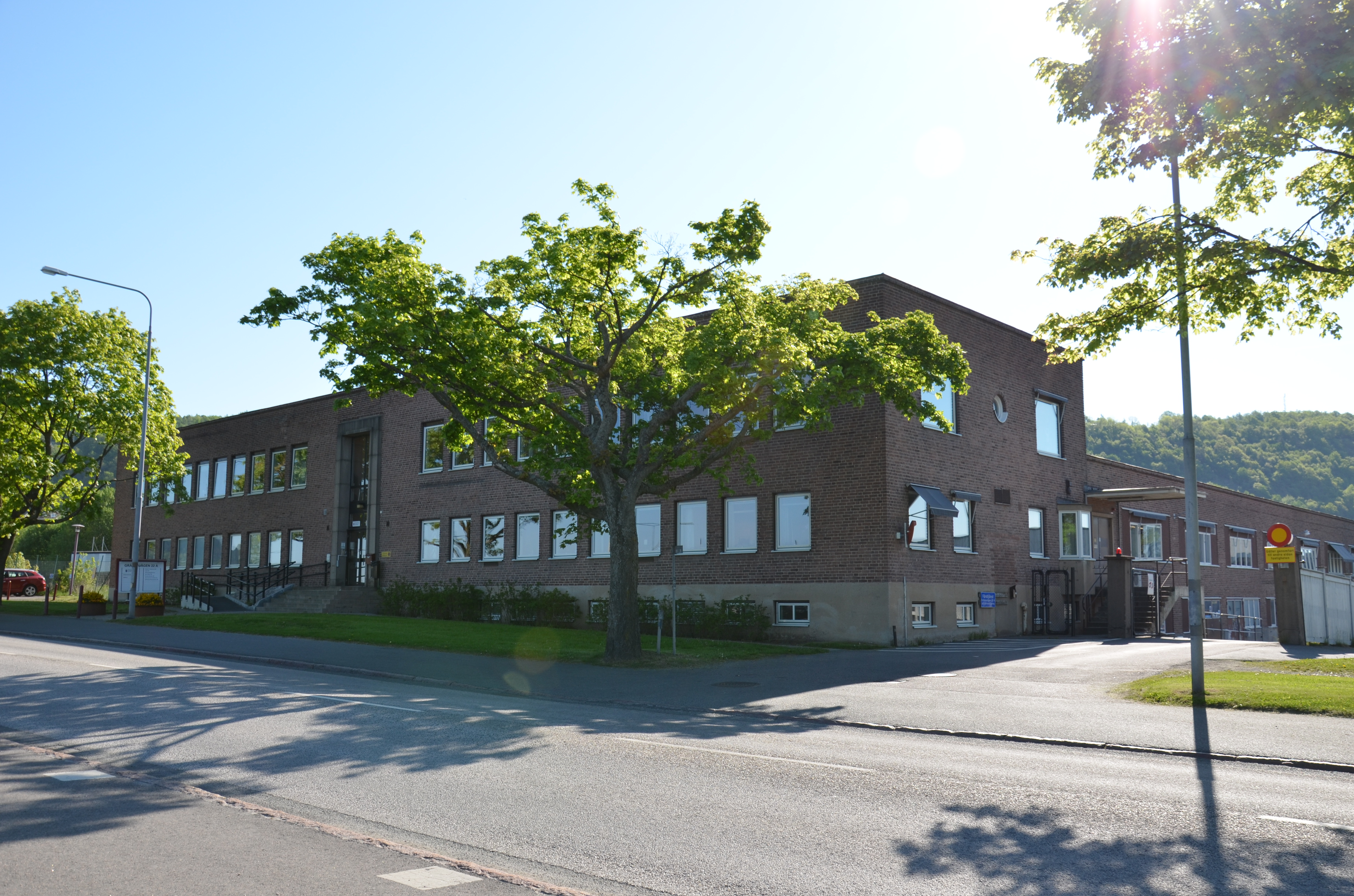 Former factory and offices of Husqvarna Borstfabrik in Huskvarna, Sweden